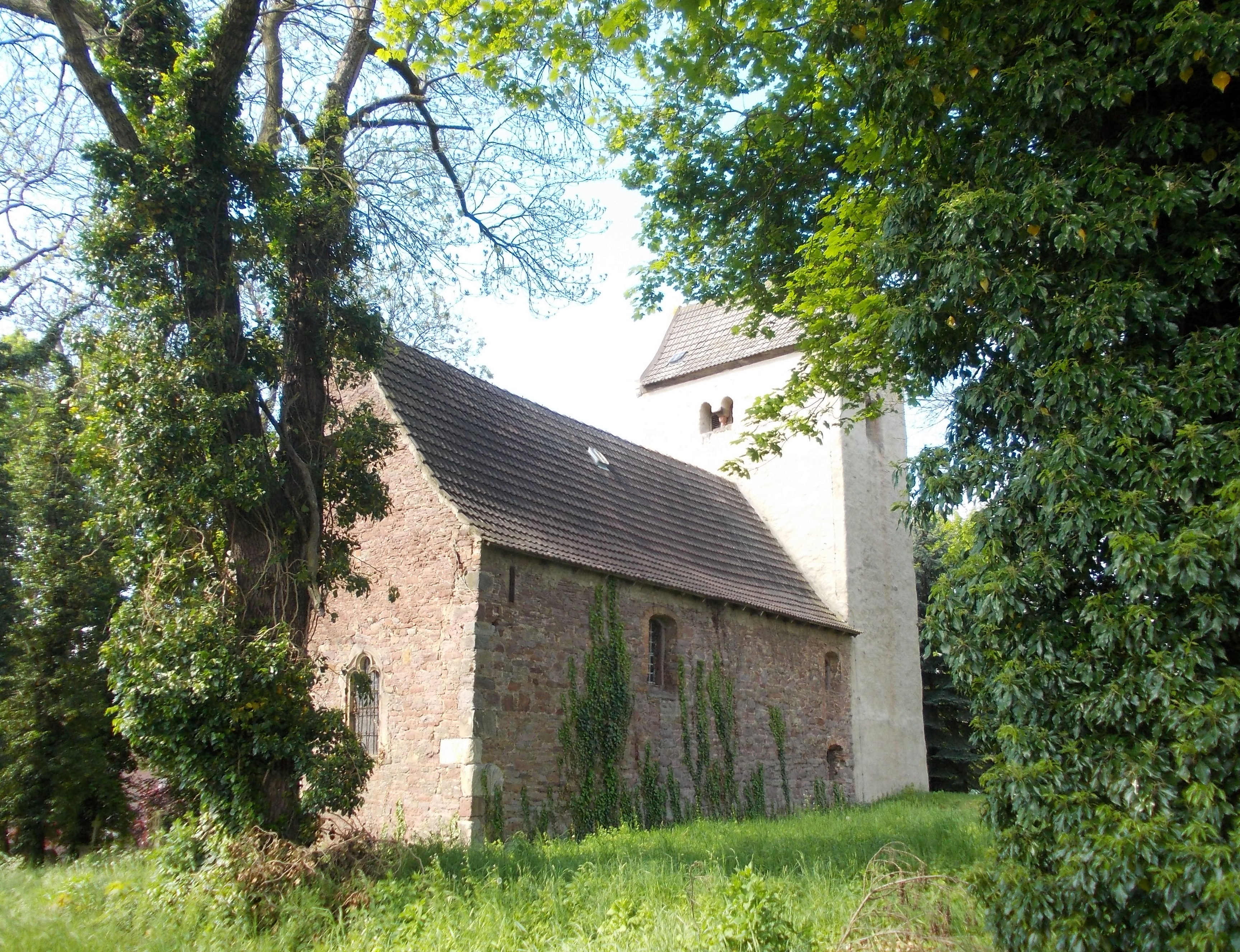 Dössel church (Wettin-Löbejün, district: Saalekreis, Saxony-Anhalt)